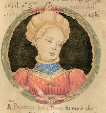 Beatrice da Camino, wife of Aldobrandino III